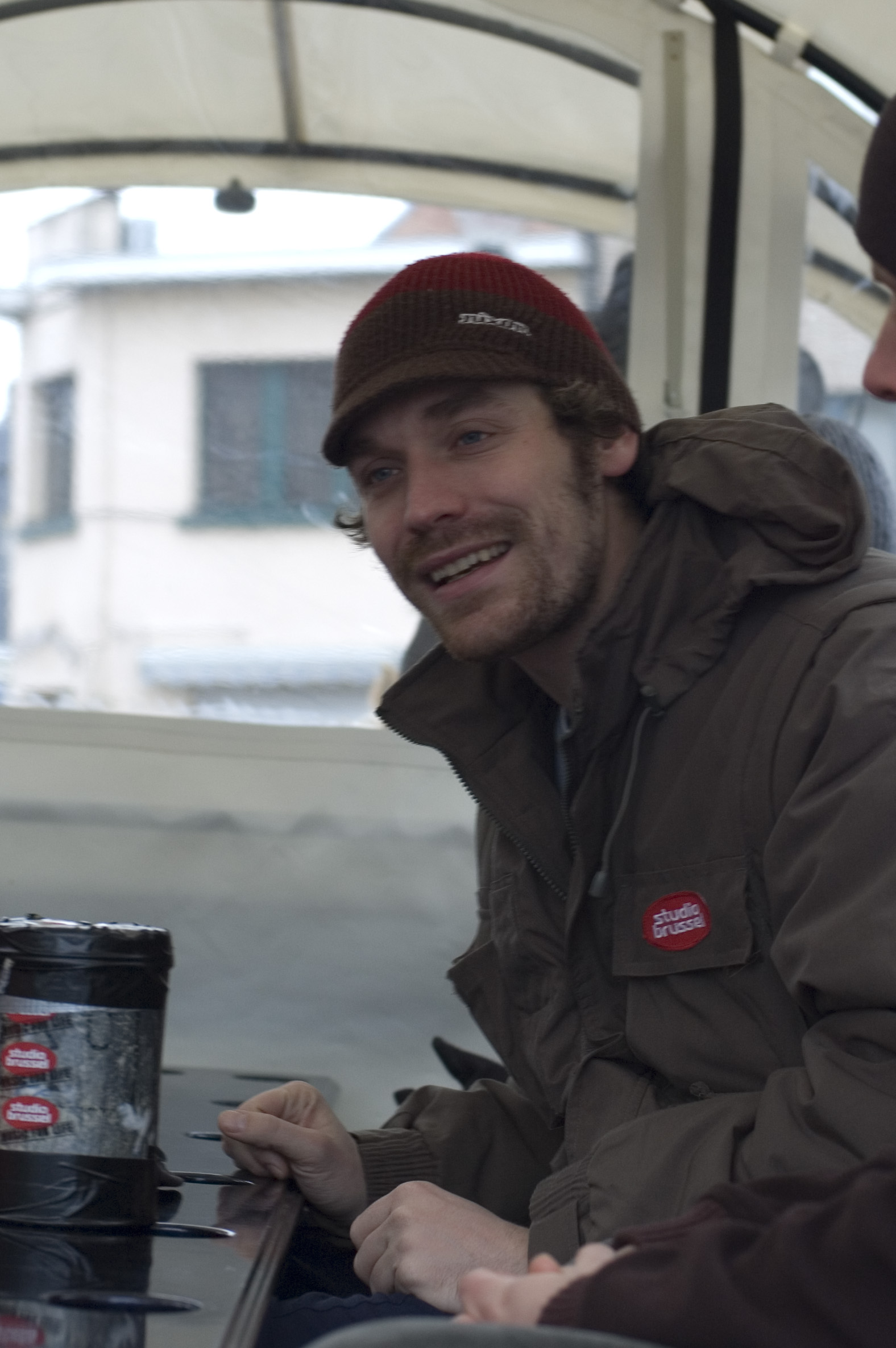 Otto Jan Ham